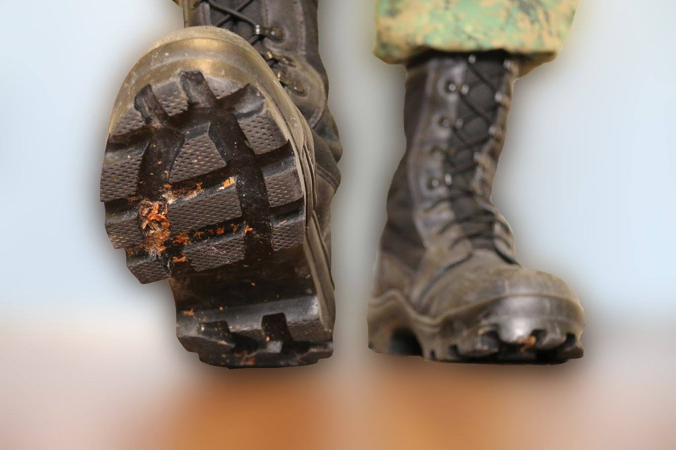 Singapore Armed Forces Goretex boots